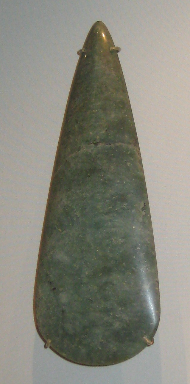 Jade axe, Canterbury, Kent, England, Neolithic, about 4,000-2,000 BC.